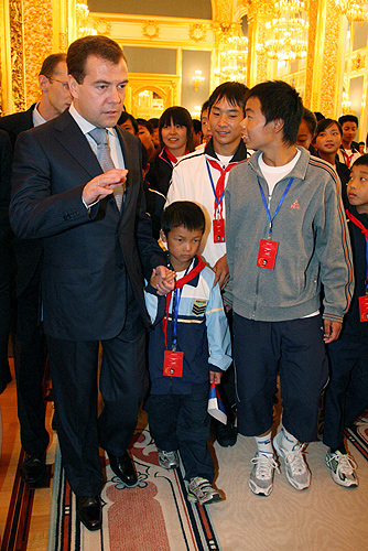 GRAND KREMLIN PALACE, MOSCOW. With a group of Chinese children from the Sichuan earthquake disaster zone.